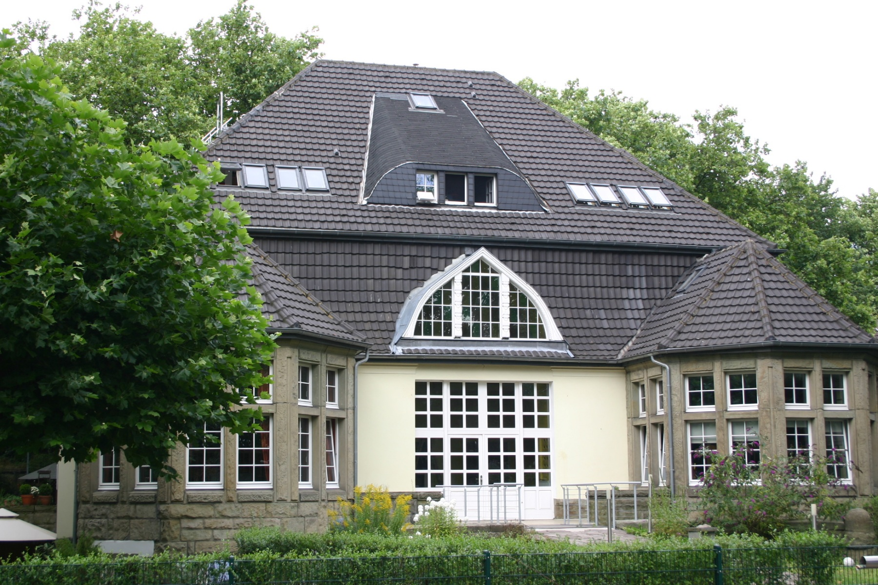 Community Centre, Siedlung Vondern, Oberhausen (Germany)